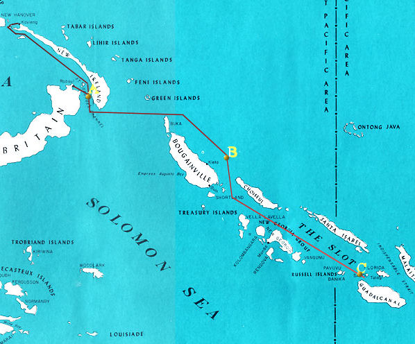 Route of approach of Mikawa's ships for the Battle of Savo Island, August 7-8, 1942. Aoba, Kako, Kinugasa, and Furutaka departed Kavieng (upper left) and joined Chokai, Tenryu, Yubari, and Yunagi between Rabaul and Cape St. George at sunset on August 7 ("A"). The force paused off Kieta, Bougainville from dawn until noon, August 8 ("B") and then proceeded down The Slot towards Savo Island and Guadalcanal, sighting the U.S. destroyer Blue at 00:54 on August 9 ("C"). Source: Morison, Struggle for Guadalcanal, p. 21. Modification of public domain image RabaulStratArea.jpg by cla68 on August 31, 2006.